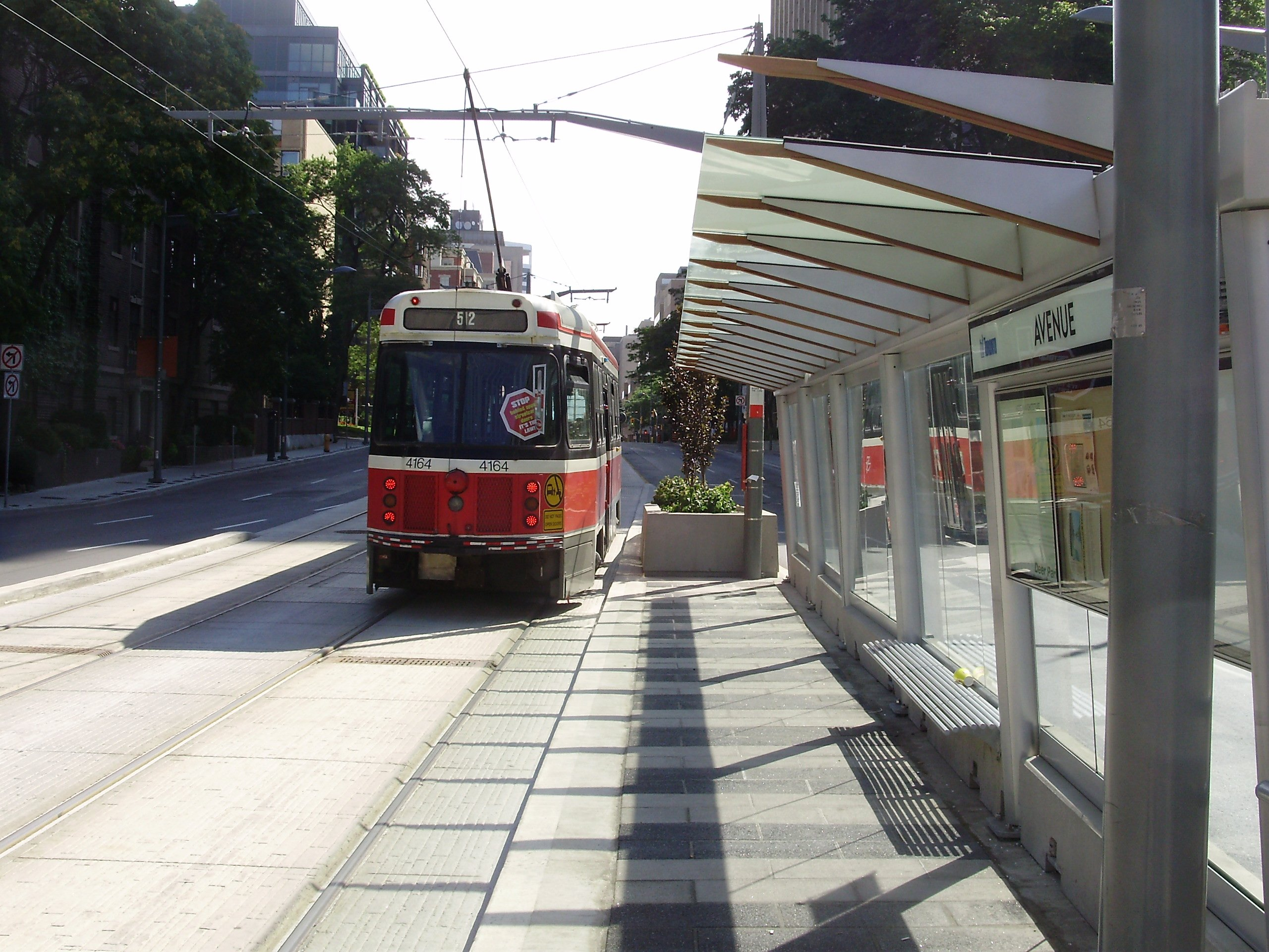 CLRV #4164, serving the 512 St. Clair streetcar route, departs eastbound from the Avenue Road passenger shelter toward St. Clair station along its private right-of-way along St. Clair Avenue in Toronto, Ontario, Canada.